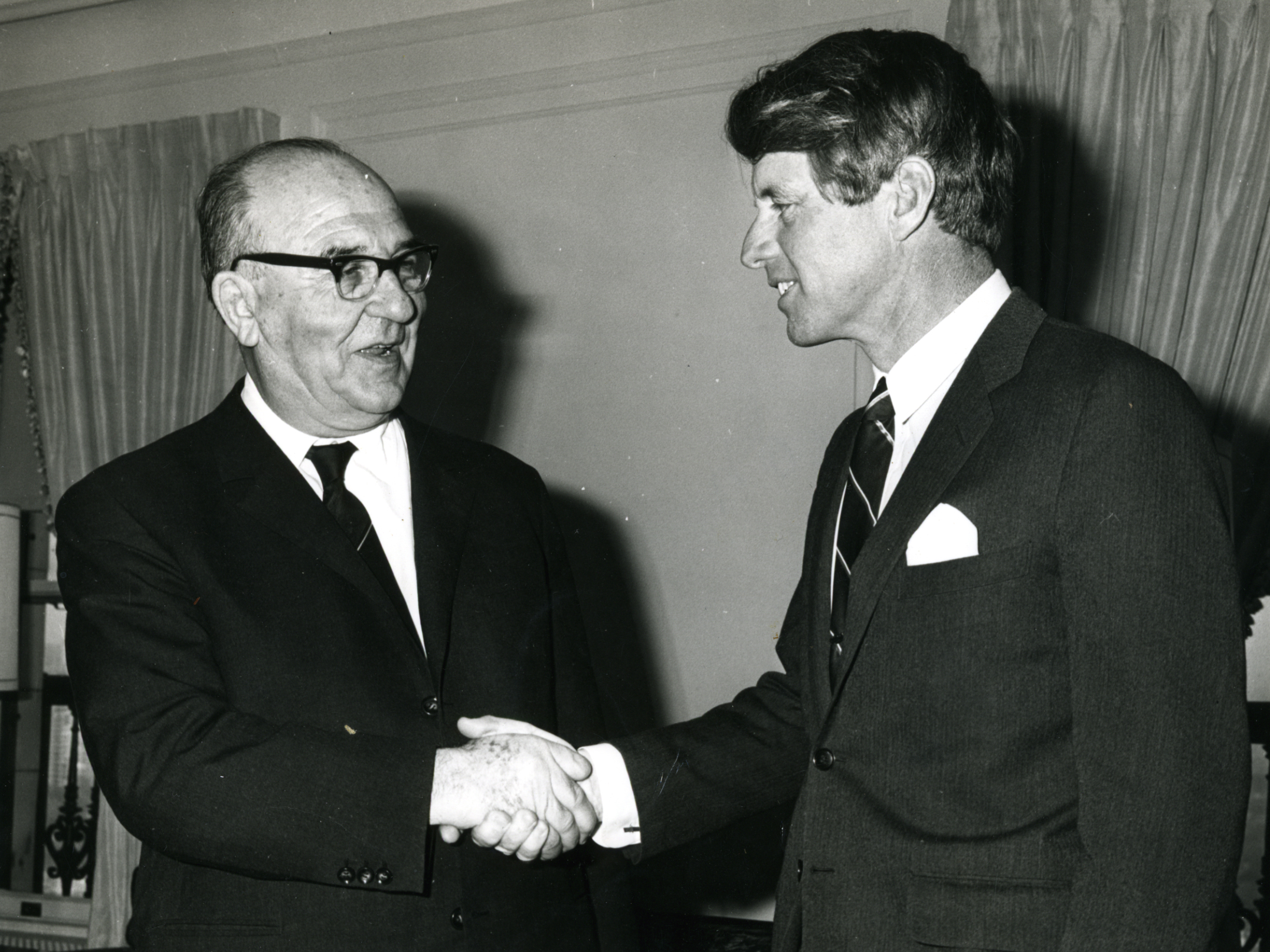 Levi Eschol